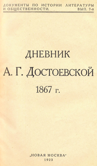 Frontispiece of Anna Dostoevskaya's Diary in 1867. Published by New Moscow. XVI, 390. Anna Dostoevskaya (nee Snitkina, 1846-1918) was a wife of Fyodor Dostoyevsky (since 1867) and his assistant. Her book Anna Dostoevskaya's Diary in 1867 was published in 1923.